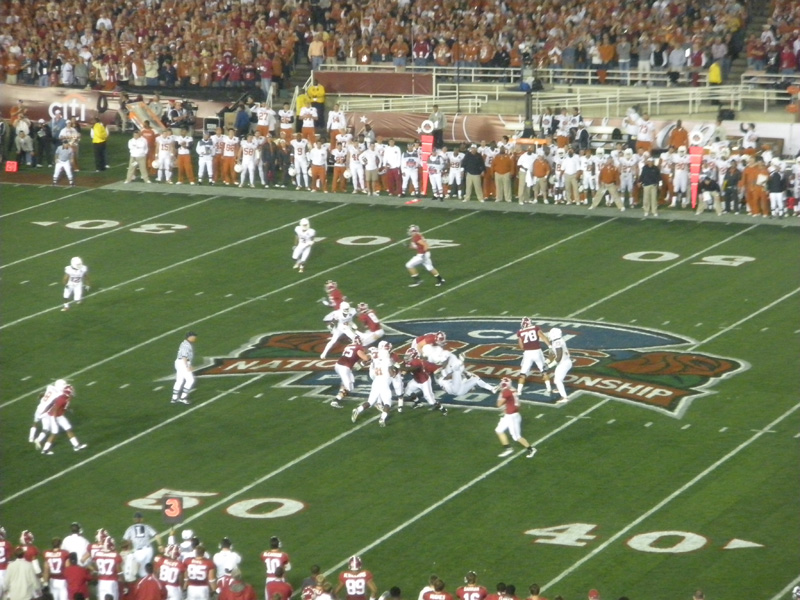 A third down play on the middle of the field of the Rose Bowl, Pasadena Calif. Texas vs. Alabama.